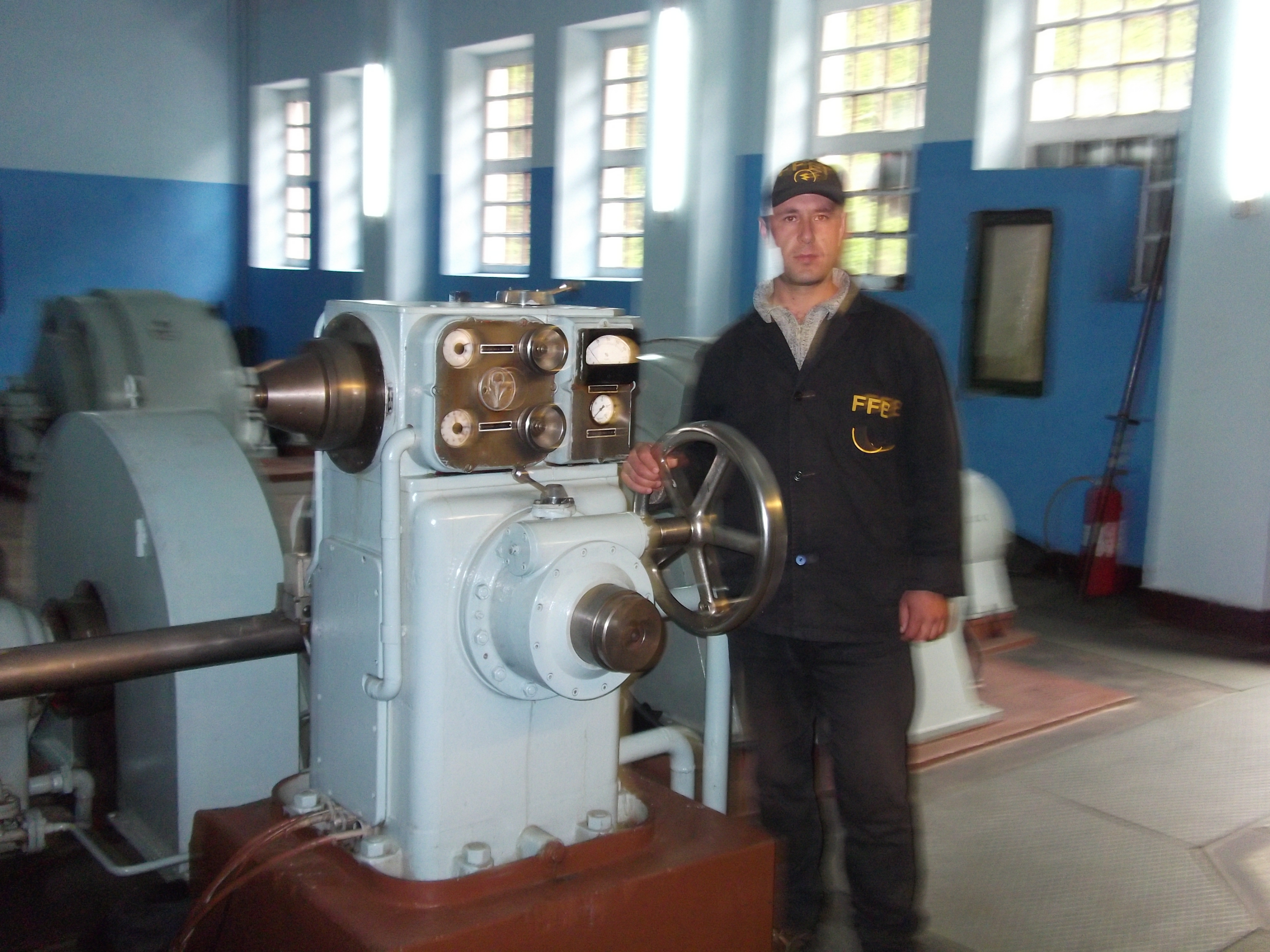 Hidrocentrali I Dikances – Dragash Kosove Hidrocentrali I dikances eshte I ndertuar ne vitn 1957 ne mallet e sharrit ne nje larsi mbidetare afo 1500m. ky hidrocentral ka qen ne funkcion deri ne vitin 2001 dhe ishte ne pronsi te korporates energjetike te kosoves. Pase nje ndrprerje afro 9 vjeqare hidrocentrali kthehet ne pune ne pronsi te Frigo Food Energy Invest. nga janri I vitit 2010. Gjendja e tanishme: Hidrocentrali punon me dy gjenerator me kapacitet maksimal prej 950 kWh energji elektrike, ne nje periudh 10 mujore, ndersa ne perioden e thatesirave zvoglon kapacitetin e prodhimit. Gjeneratoret jane te prodhuesit Rade Konqar prodhim I vitit 1975, ndersa rregullatori I rrymes I llojit Litostroj. Sistemi I furnizimit me uje behet nga lumi I Brodit me nje kanal te ndertuar me nje gjatesi 925m dhe me nje rezervuar akumulues me diameter 7,0 m dhe thellesi prej 7,0m (kapacitet 270 m3). Ramja e ujit nga rezervuari deri ne turbine behet me gyp me diameter prej 70 cm ne nje lartesi prej 115 m. Ne kete hidrocentral per momentin jane te punsuar 9 persona. Gjithashtu ka fillue edhe nderimi I gjeneratorit te tret me nje teknologji me te avancuar dhe me nje kapacitet me te madhe. Personat kontaktue ne vendin e ngjarjes: Nazyf Bojaxhiu dhe Visar Ibrahimi